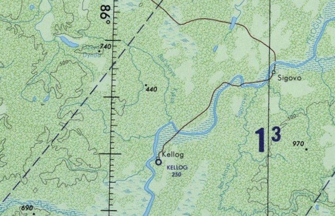 Operational Navigation Char map section centered on Kellog, a section of the Yeloguy River and Lake Dynda.